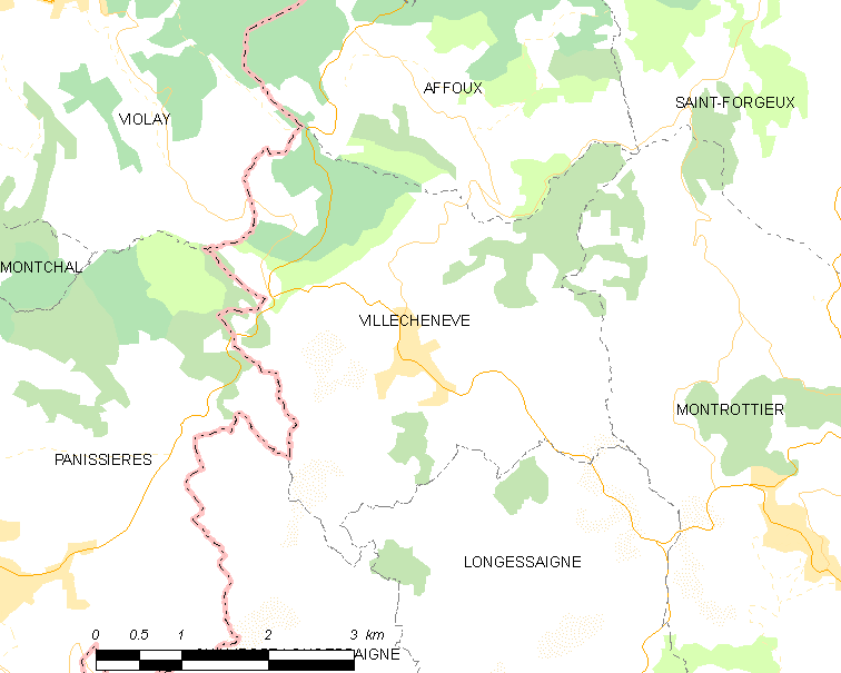 Map of French municipality